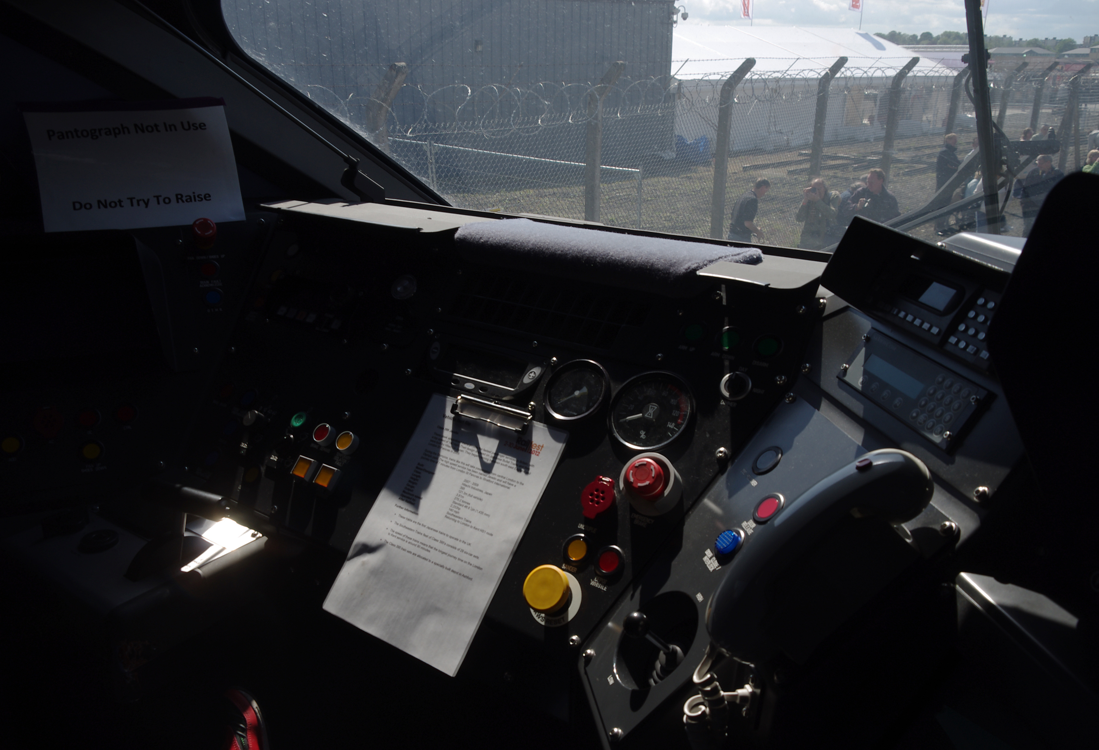 Interior of Southeastern class 395 "Javelin" EMU 395019 at Railfest 2012.